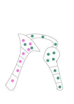 Mating of sac fungi (Ascomycetes). Archegonium and antheridium with trigogyne.